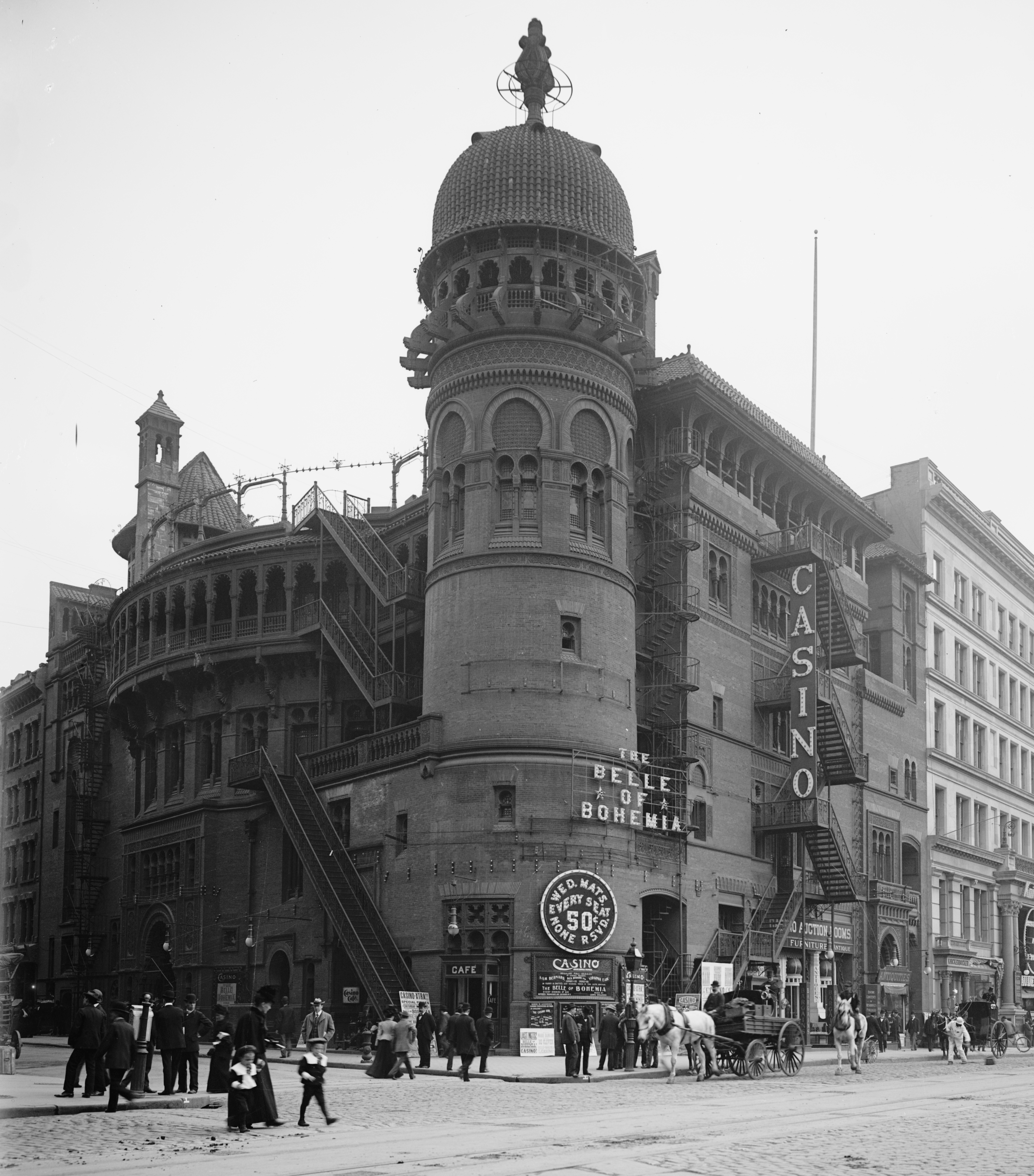 Cropped version of File:Casino Theatre, Broadway and 39th Street, Manhattan.jpg